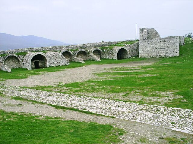 Town of Berat, Albania